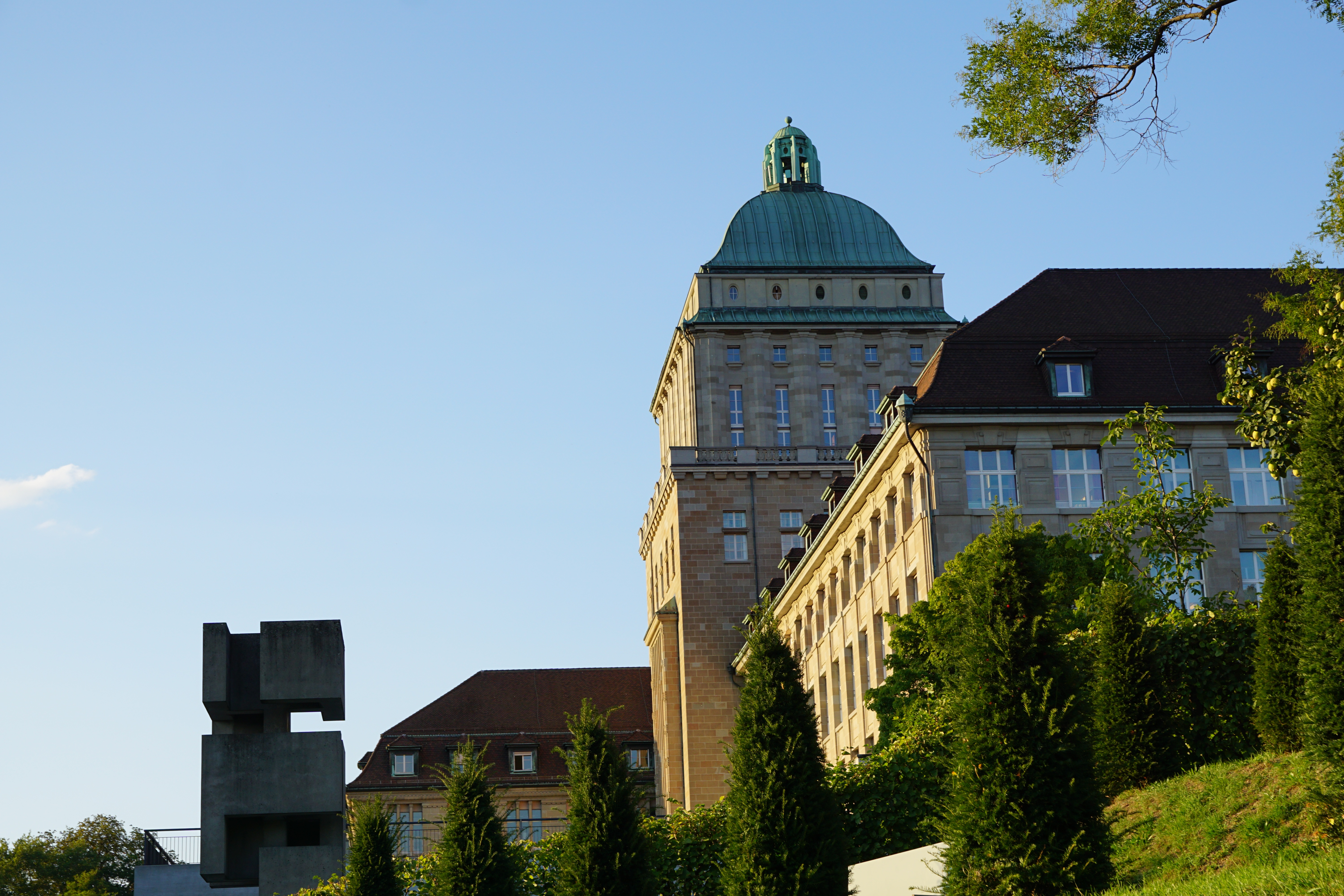 The University of Zurich in Switzerland